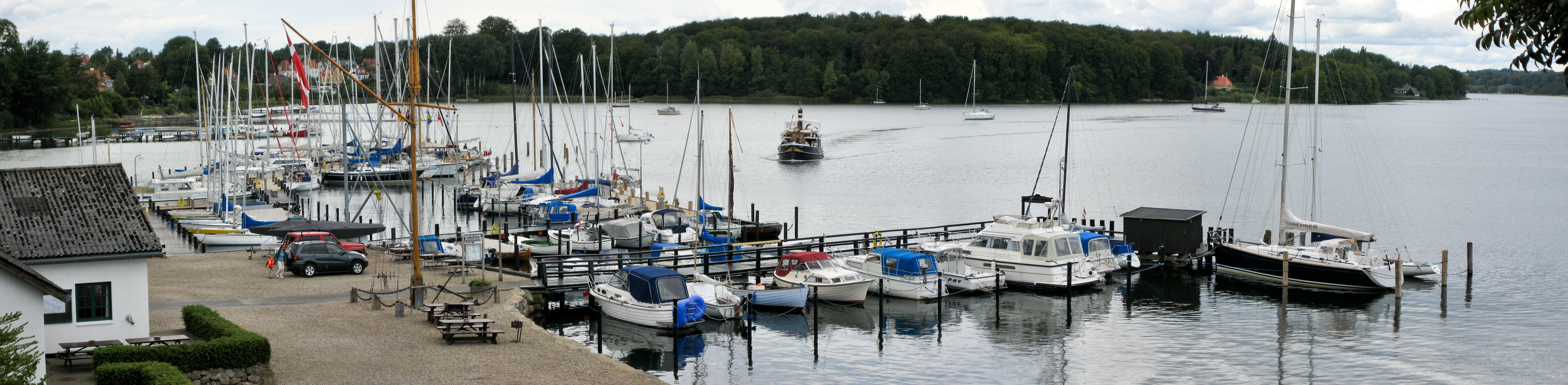 Marina in Troense/Danmark